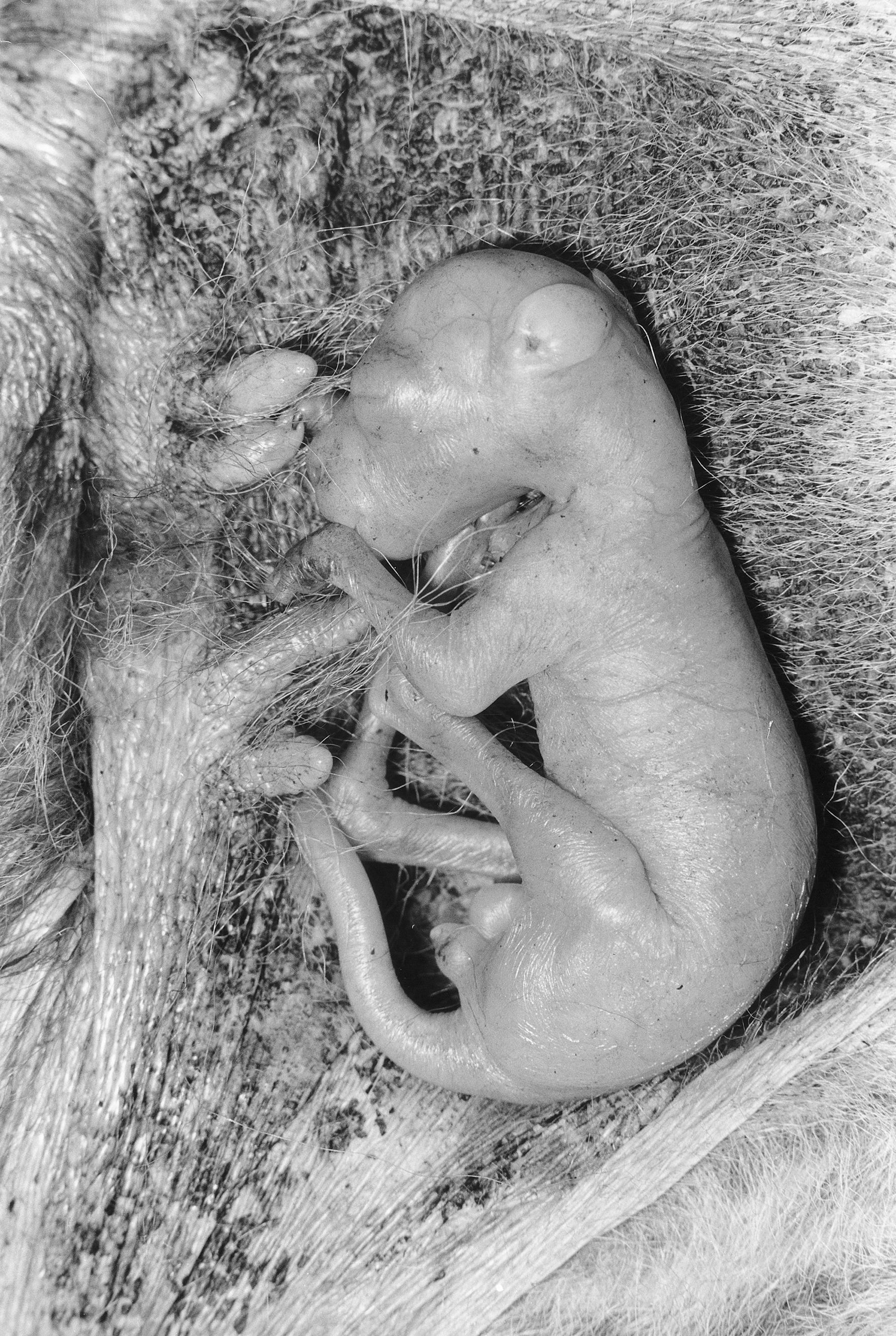 Fifty-day-old kangaroo young in the pouch. A resting embryo like that in the preceding photograph, DA1507, is contained in the uterus. Kangaroo research was carried out by CSIRO from the early 1960s to the late 1980s. The process of kangaroo reproduction was revealed for the first time by CSIRO researchers, G B Sharman and J H Calaby, providing a basis for significant research by universities and state departments from the late 1960s. A series of 13 images makes up this series DA1487, DA1497 to DA1507 and DA1509. Photograph: Ederic Slater